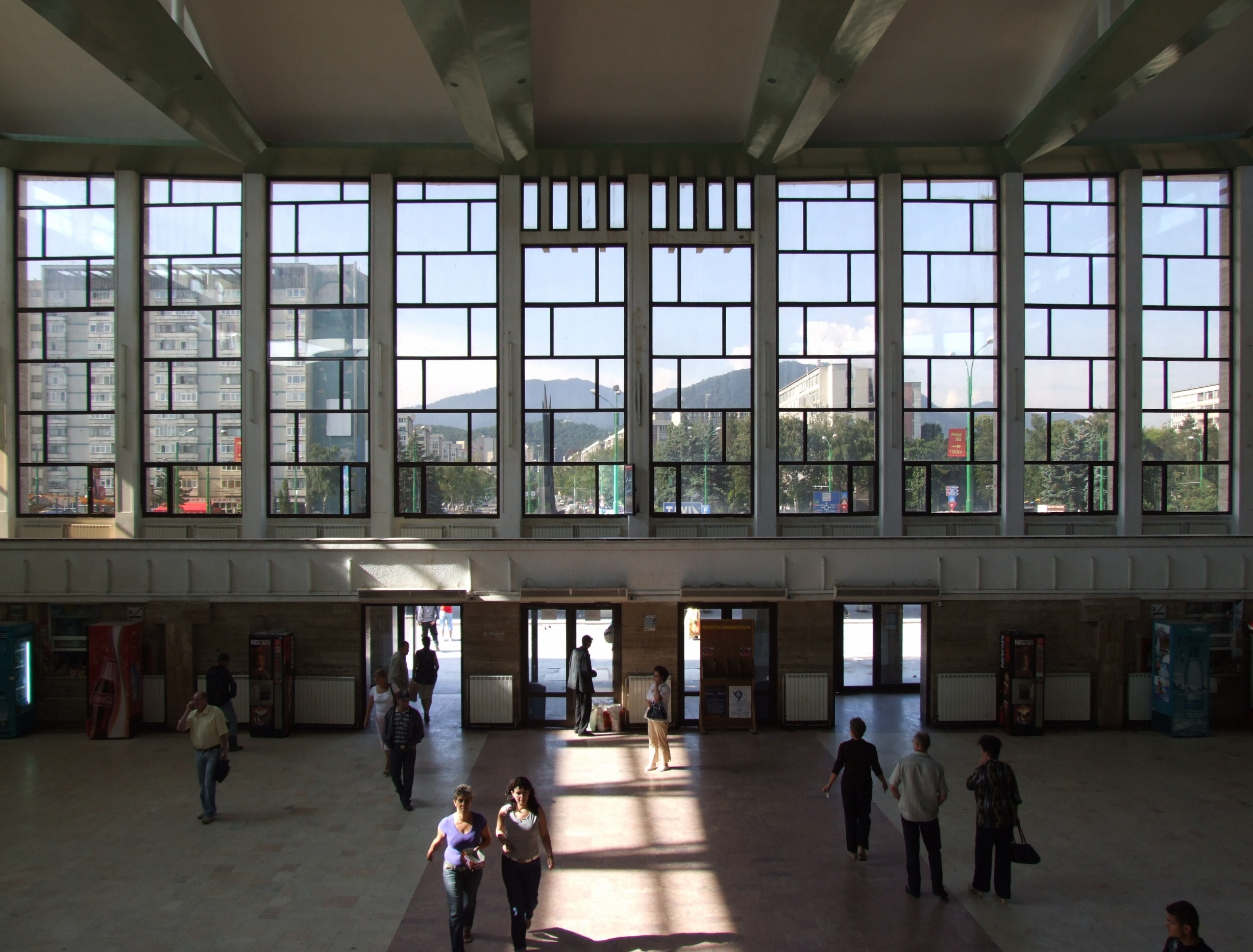 Braşov (Kronstadt, Brassó) train station - interior